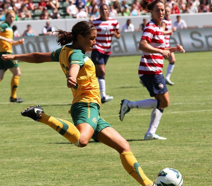 Australian WNT forward Sam Kerr playing against the USWNT in Carson, LA in 2012